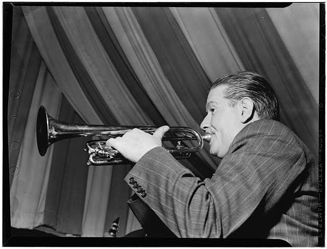 Wild Bill Davison, Eddie Condon's, NYC, June 1946. Photography by William P. Gottlieb